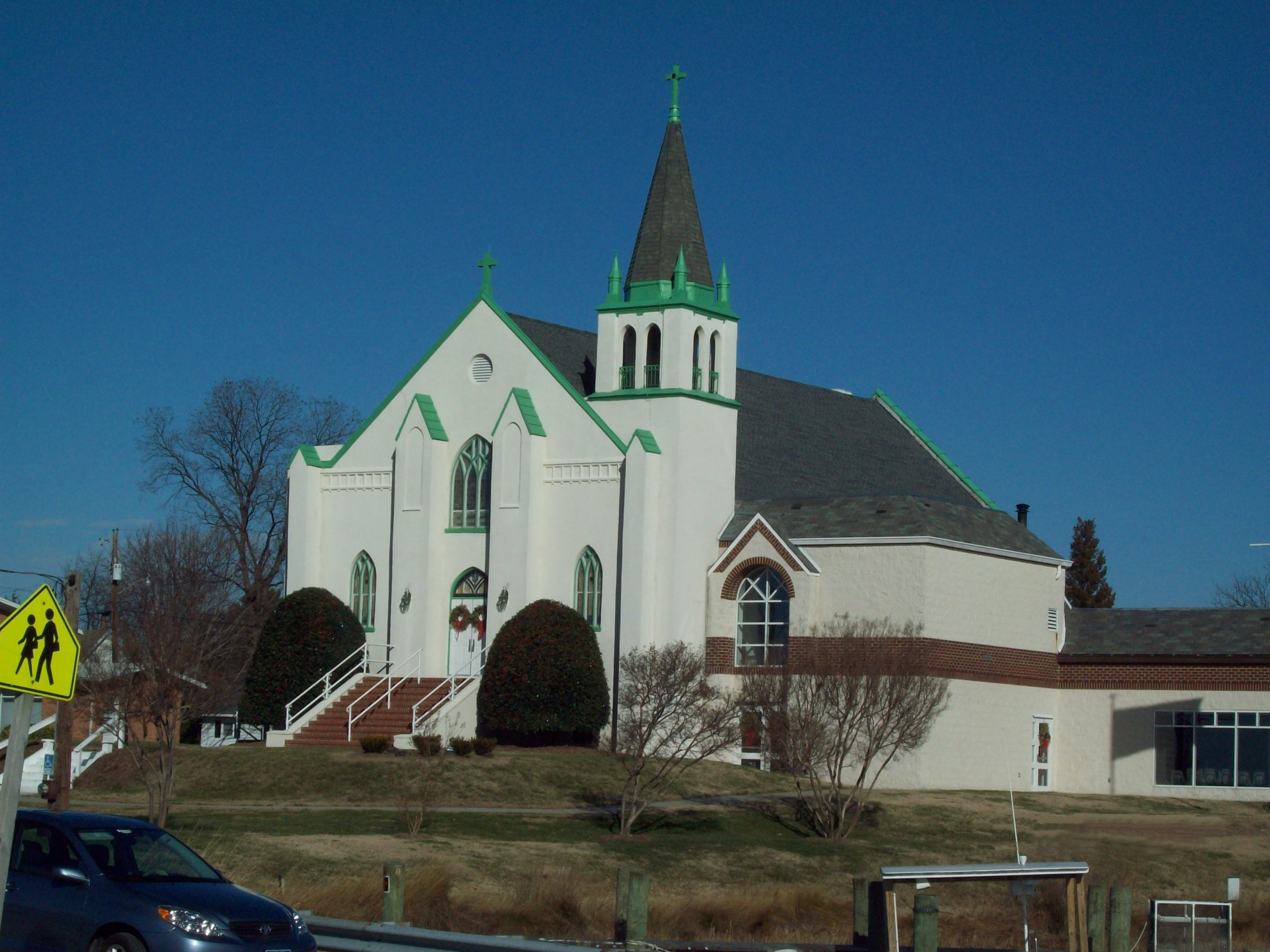 Our Lady Star of the Sea, Solomons, Maryland, December 2008